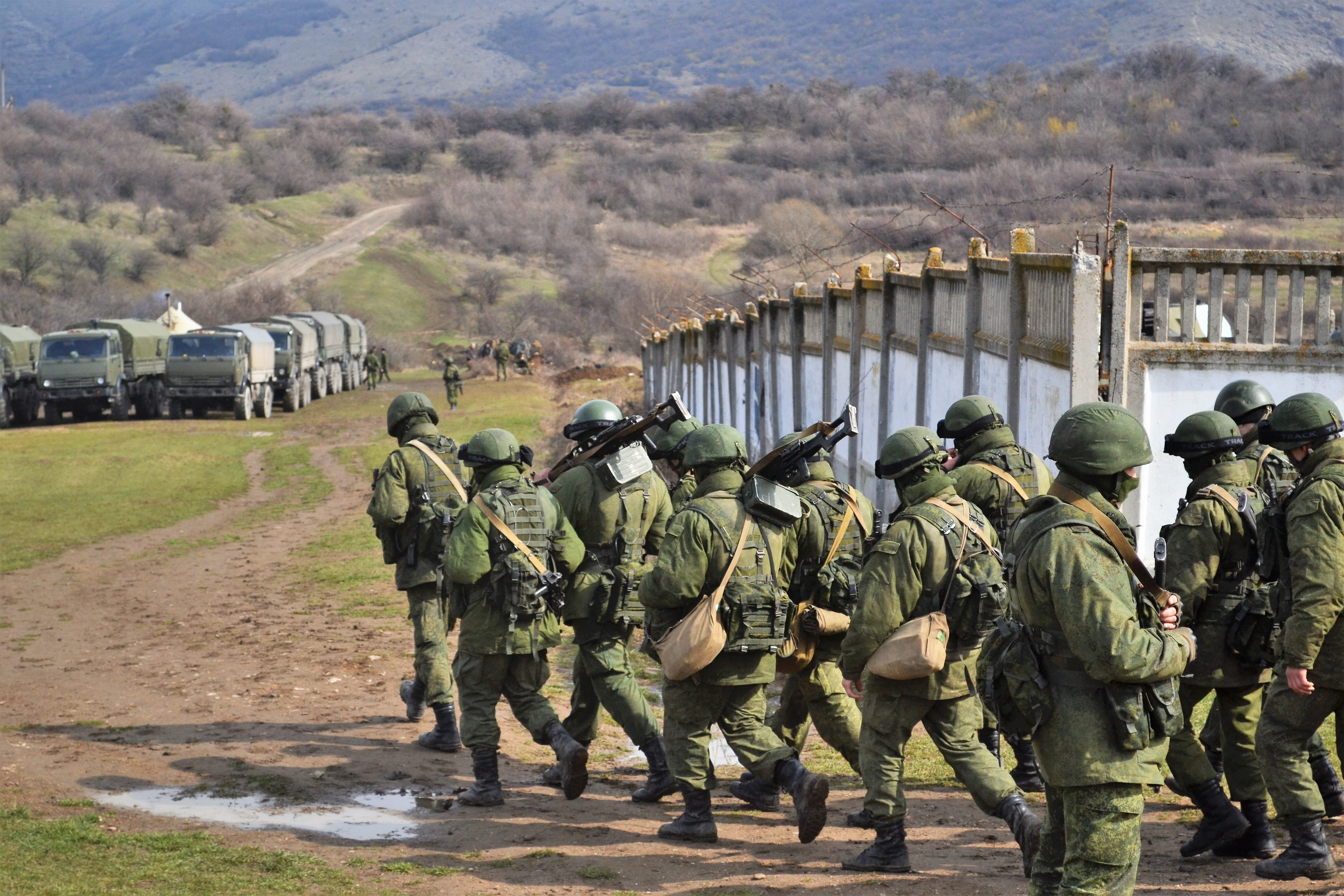 Military base at Perevalne during the 2014 Crimean crisis.